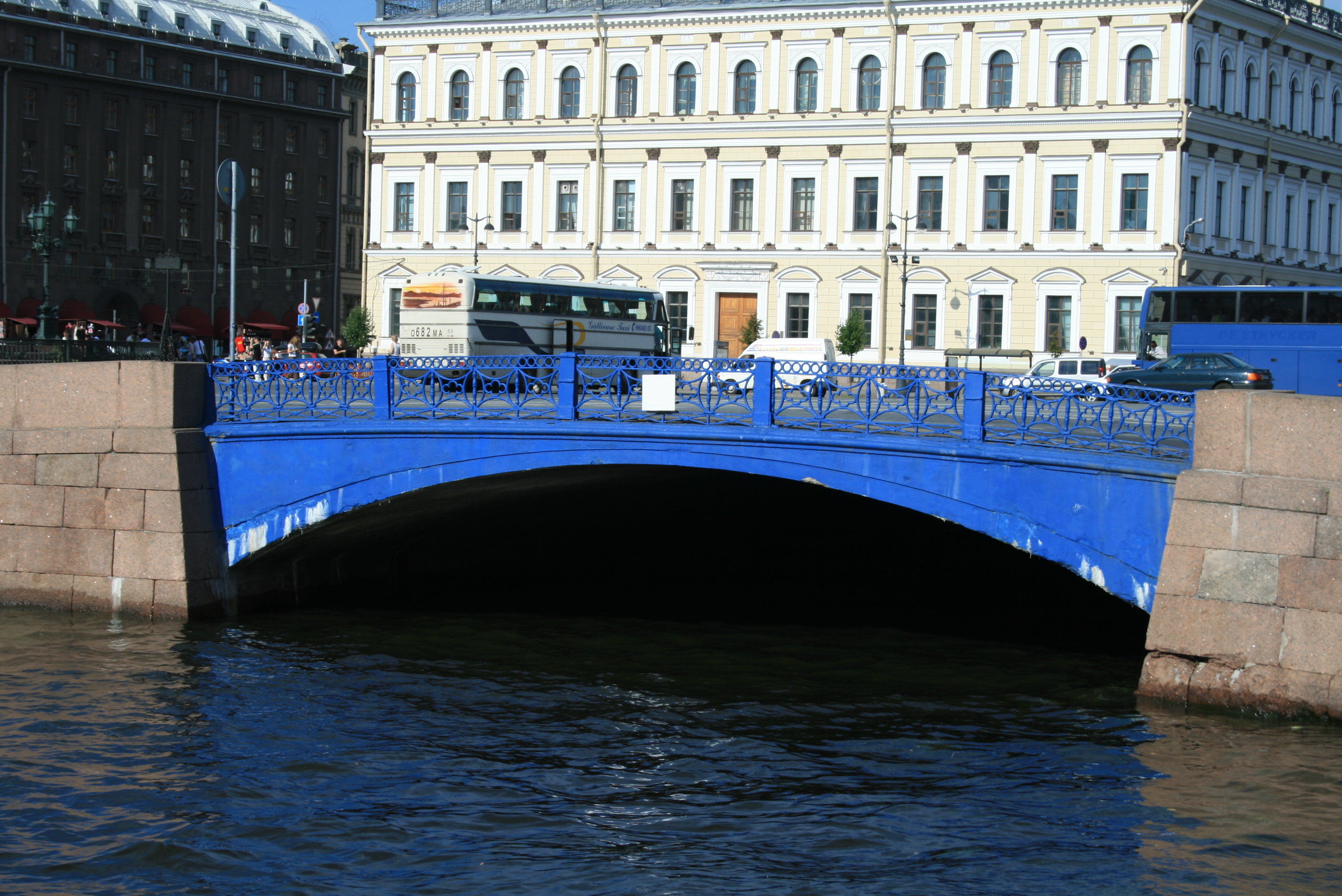 Blue Bridge